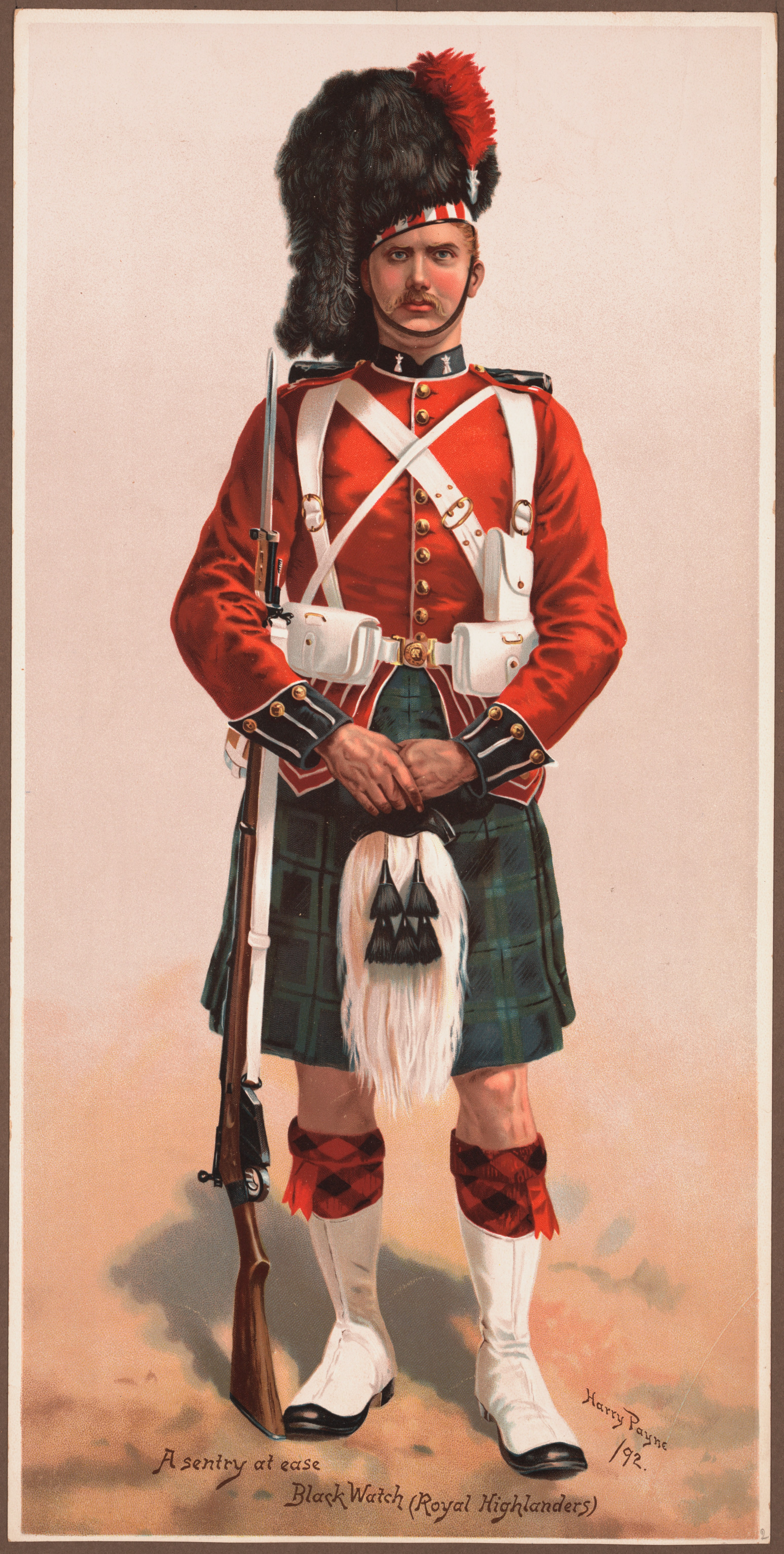 A sentry at ease, Black Watch (Royal Highlanders).